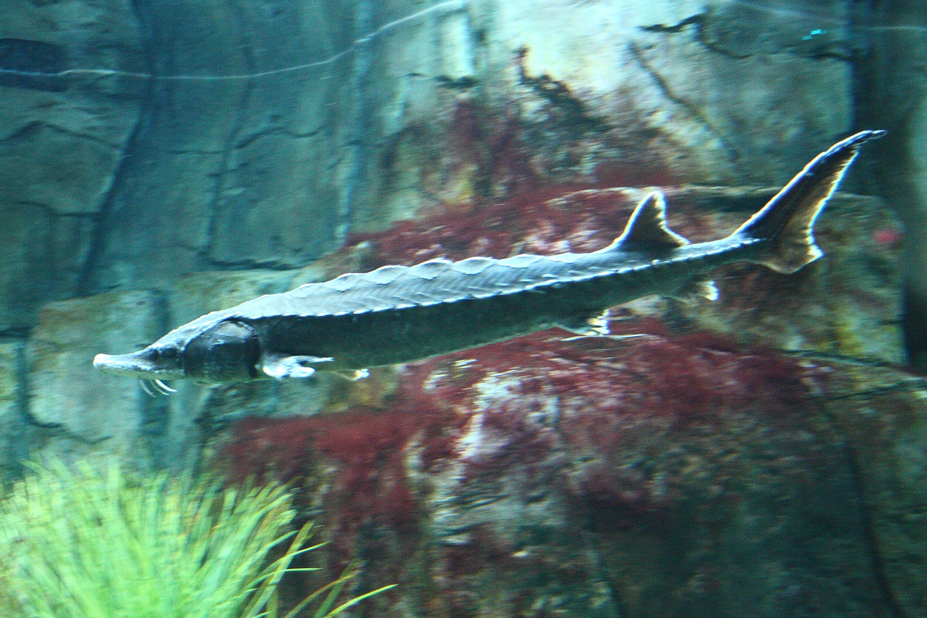 Acipenser oxyrinchus oxyrinchus, Aquarium du Québec